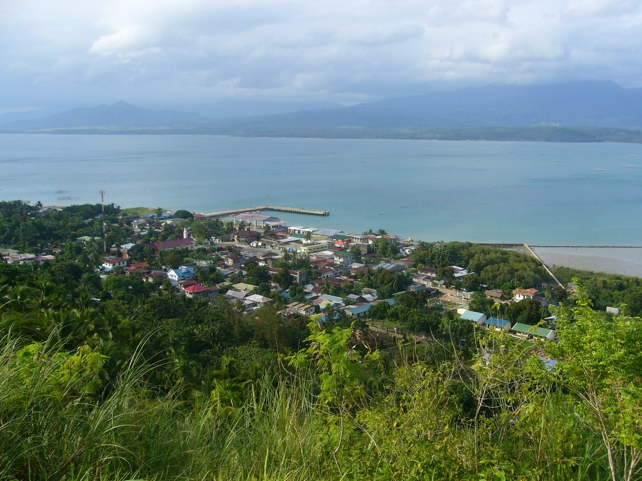 Calubian, Leyte, Philippines seen from a hilltop overlooking town. Shoreline of Biliran Island visible in the distance.